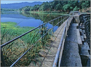 Searville Dam and Reservoir